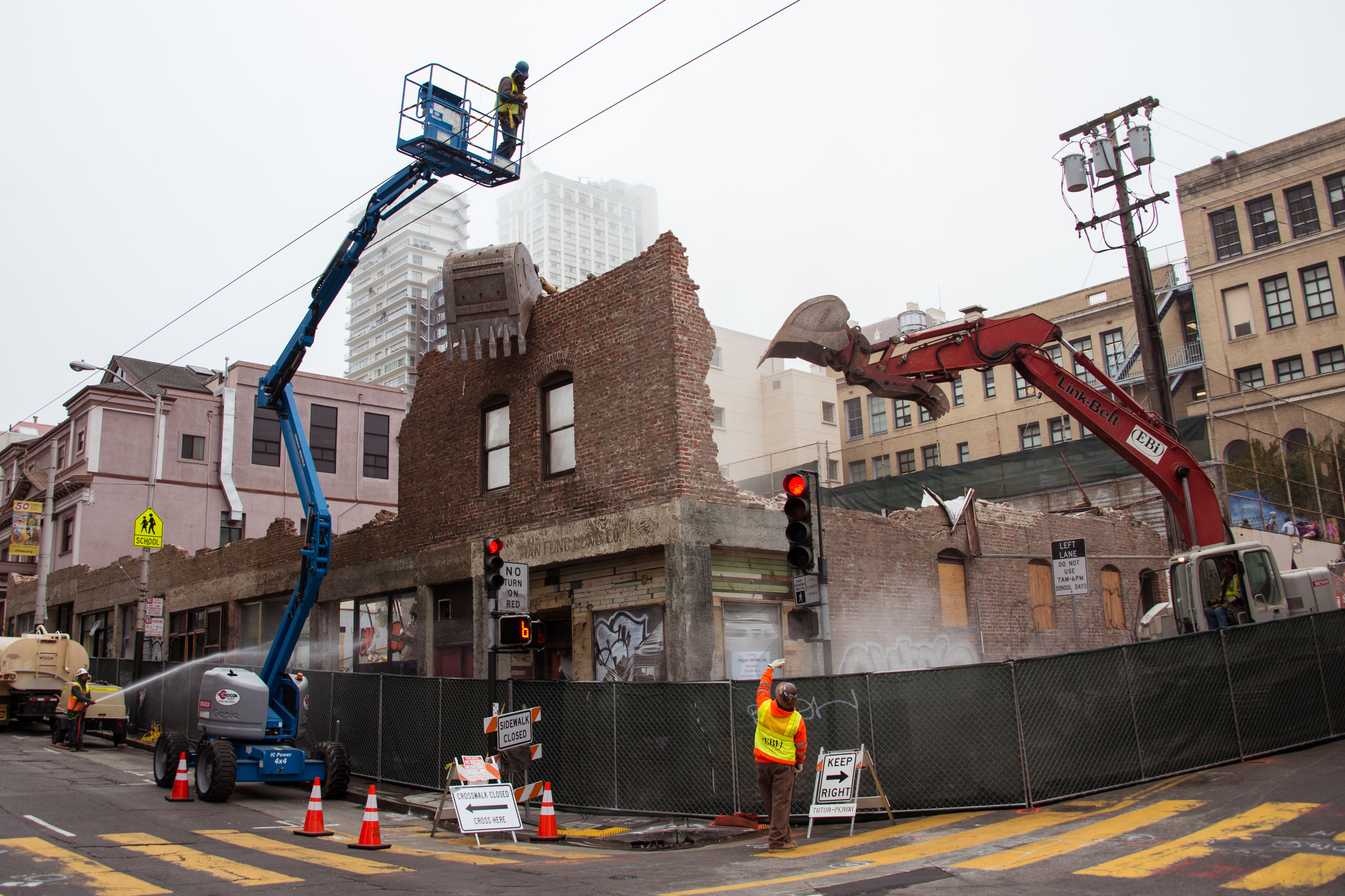 (making room for the new subway line)